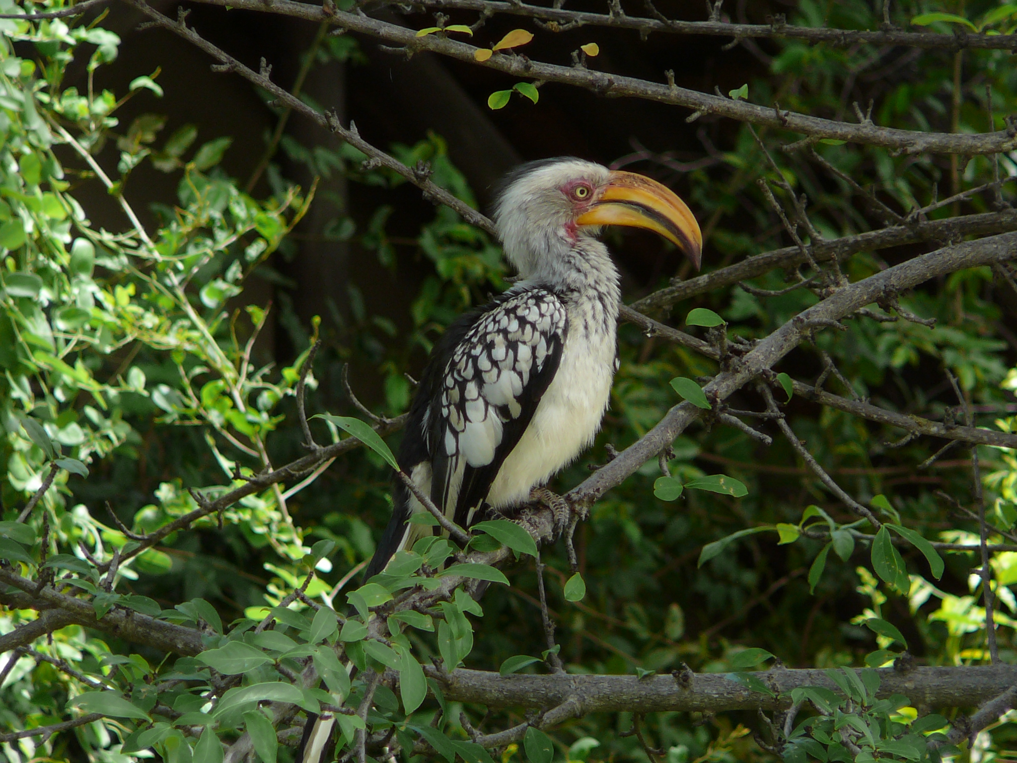 Southern Yellow-billed Hornbill , Kruger National Park